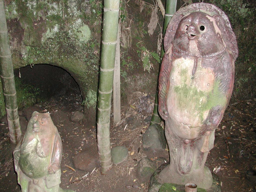 A photo of a couple of Tanuki statues (taken 2003-07) in a temple in Kamakura. Can't remember which.